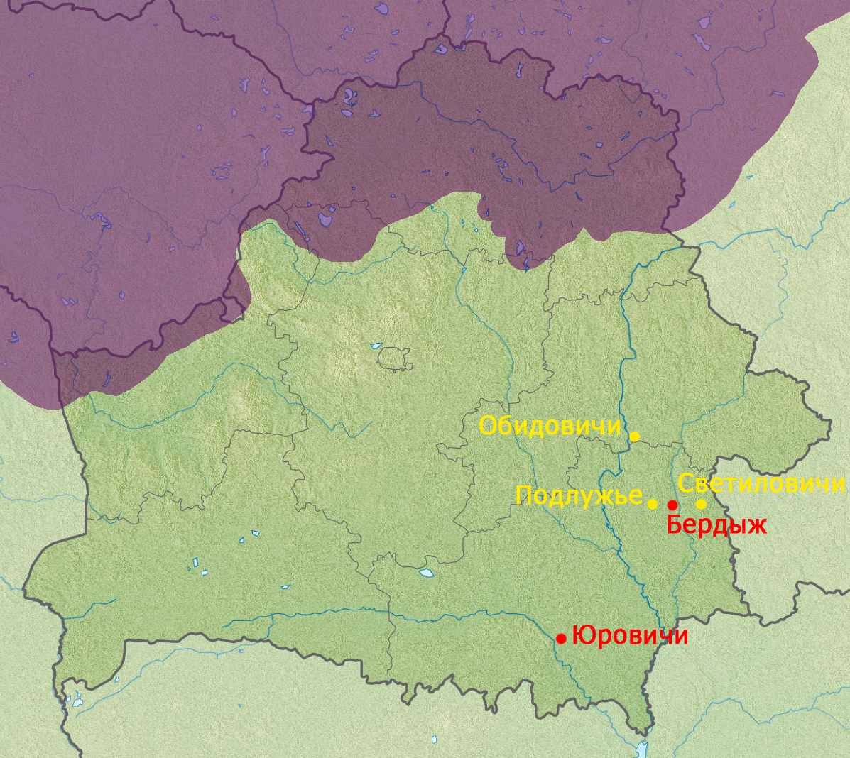 Paleolithic archeological sites in Belarus. Properly archeological sites are in red (except for final paleolith); findings of tools of mousterian type are in yellow; southern border of Valday ice age is in violet.